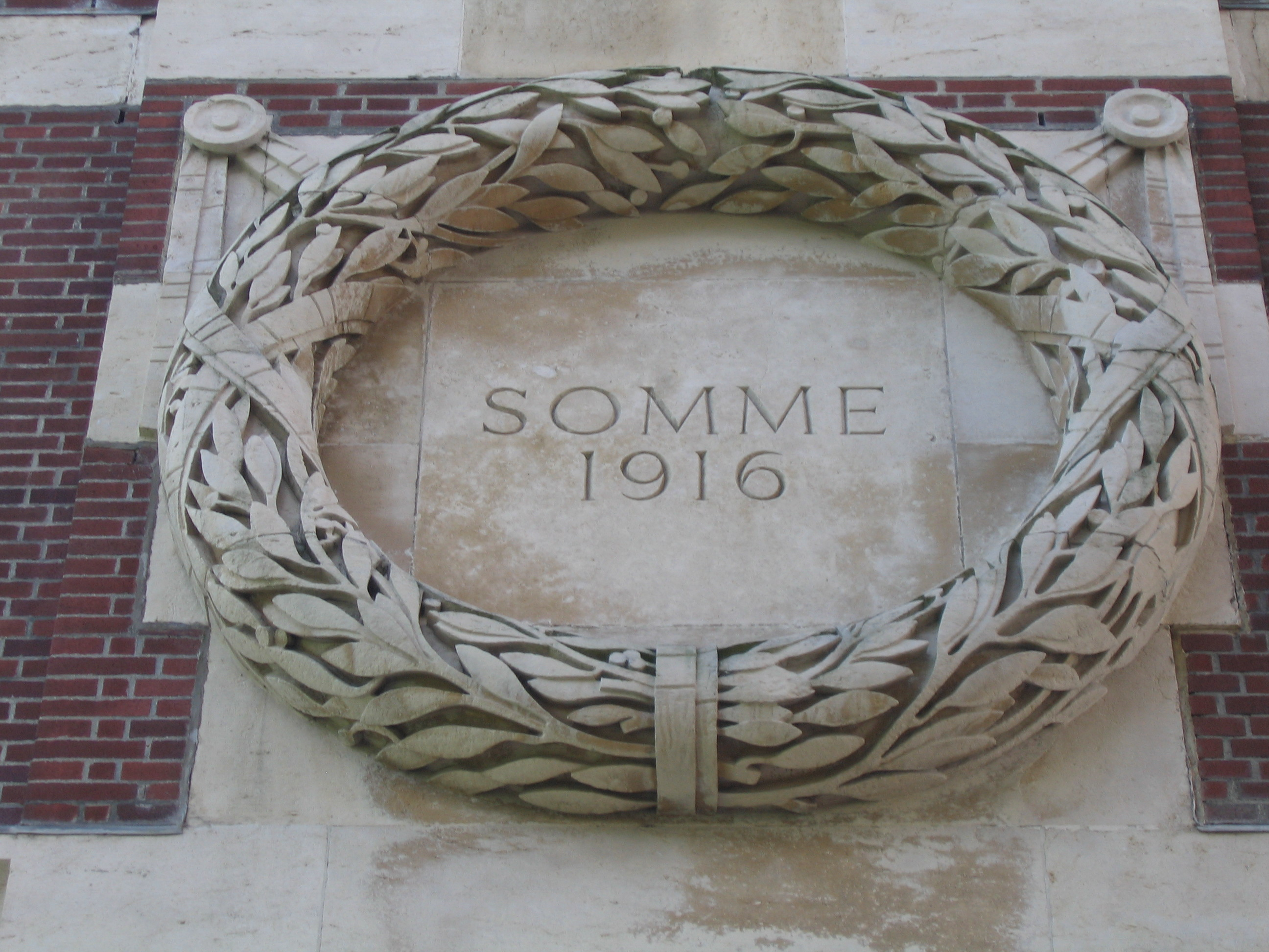 Part of a set of photographs of the sixteen (16) battle roundels carved on the Thiepval Memorial to the Missing of the Somme, Thiepval, France. The inscription here read: 'SOMME 1916'.